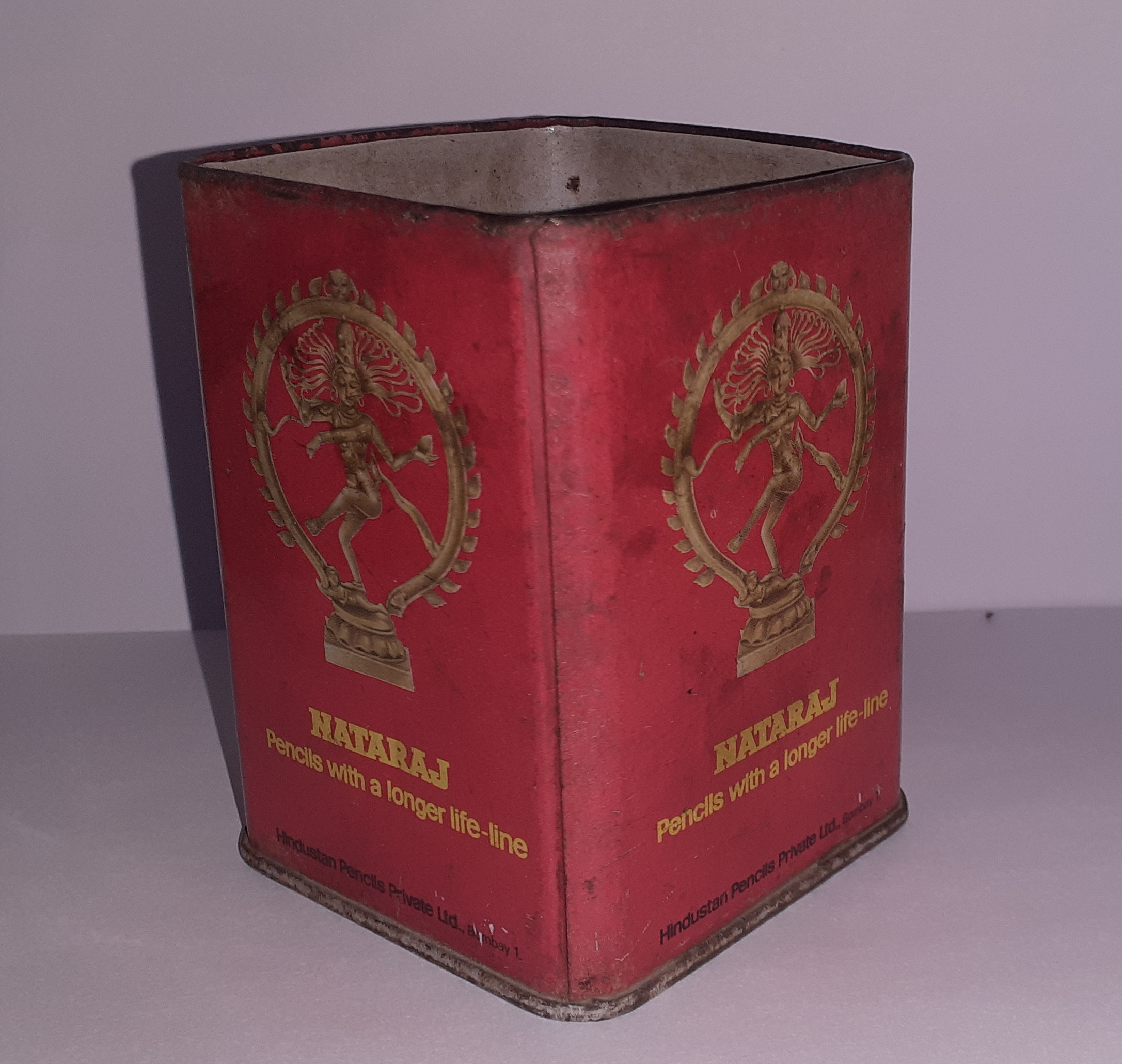 Natraj HB graphite pencil container in 1990's